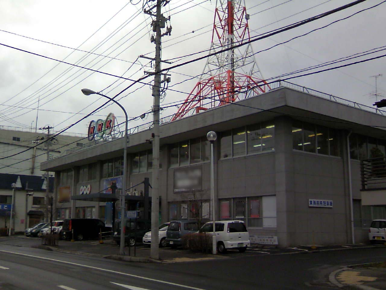 NHK八戸支局 (NHK Hachinohe - HACHINOHE, AOMORI, JAPAN)